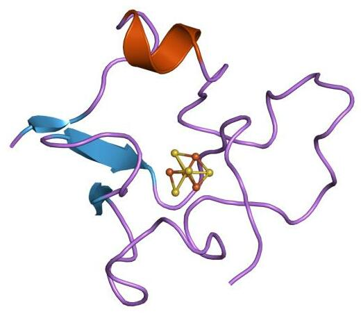 Cartoon representation of the molecular structure of protein registered with 1hpi code.